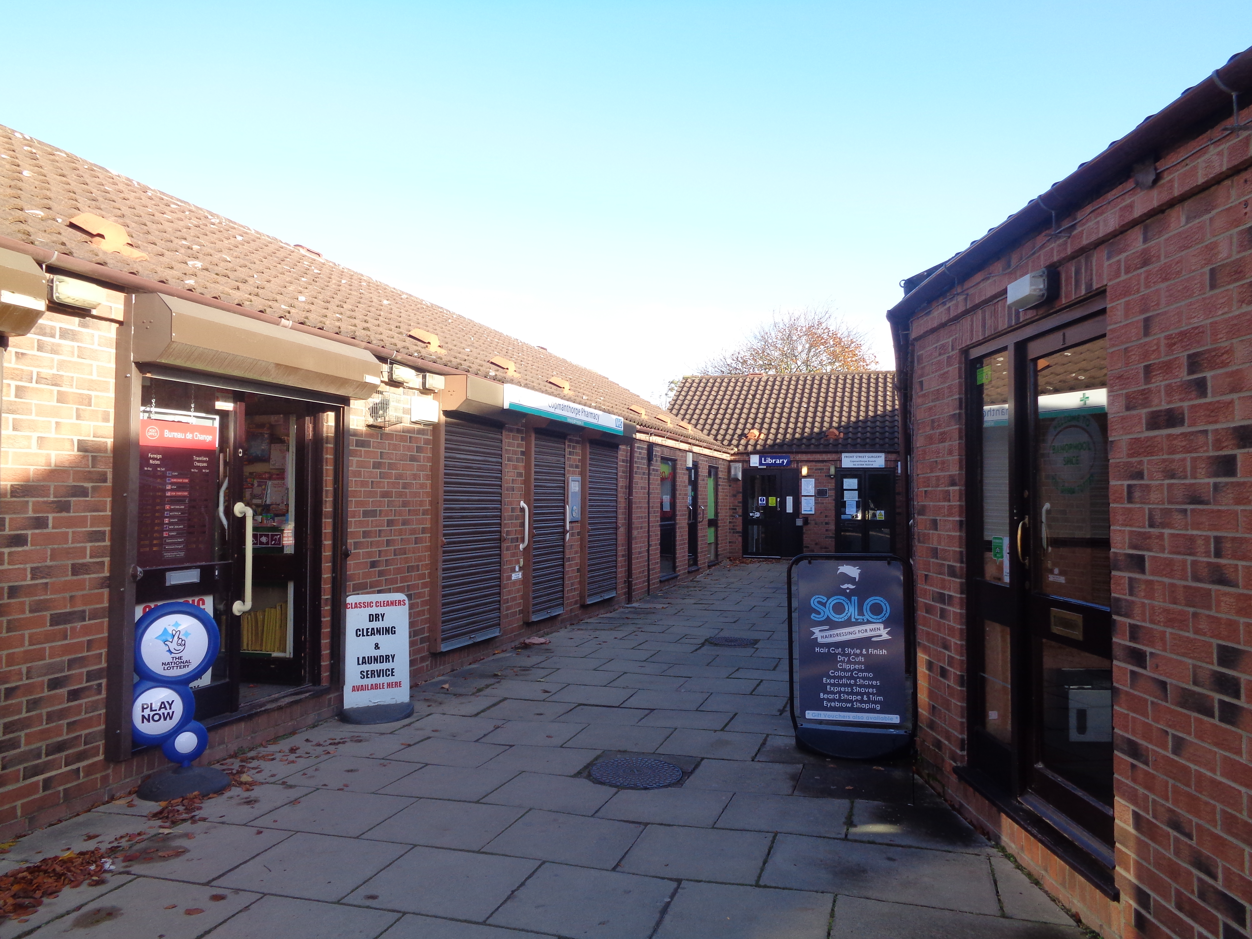 Small shopping precinct off Main Street, Copmanthorpe, York, North Yorkshire. Taken on the morning of Friday the 4th of November 2016.